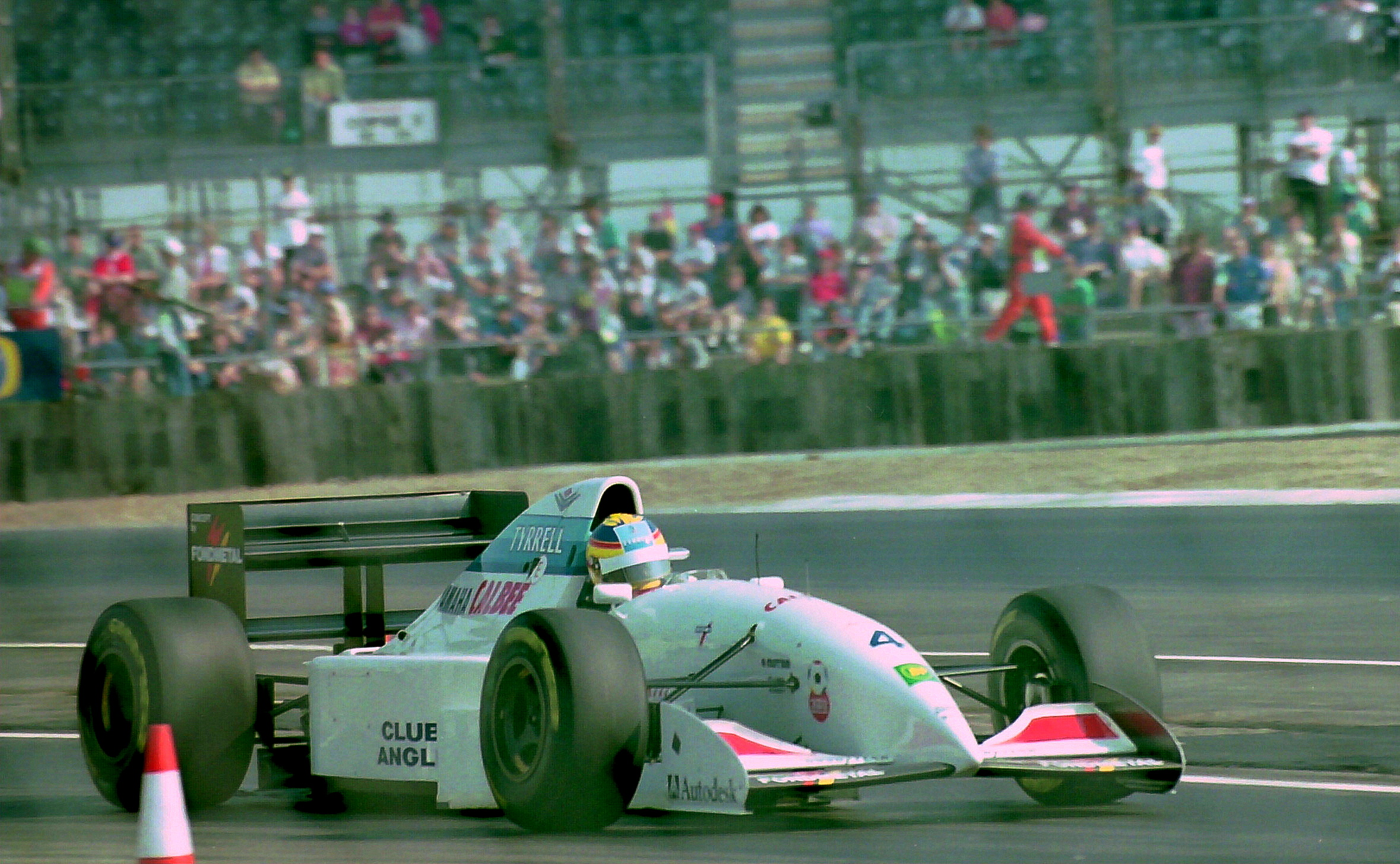 Mark Blundell - Tyrrell 022 leaves the pits at the 1994 British Grand Prix